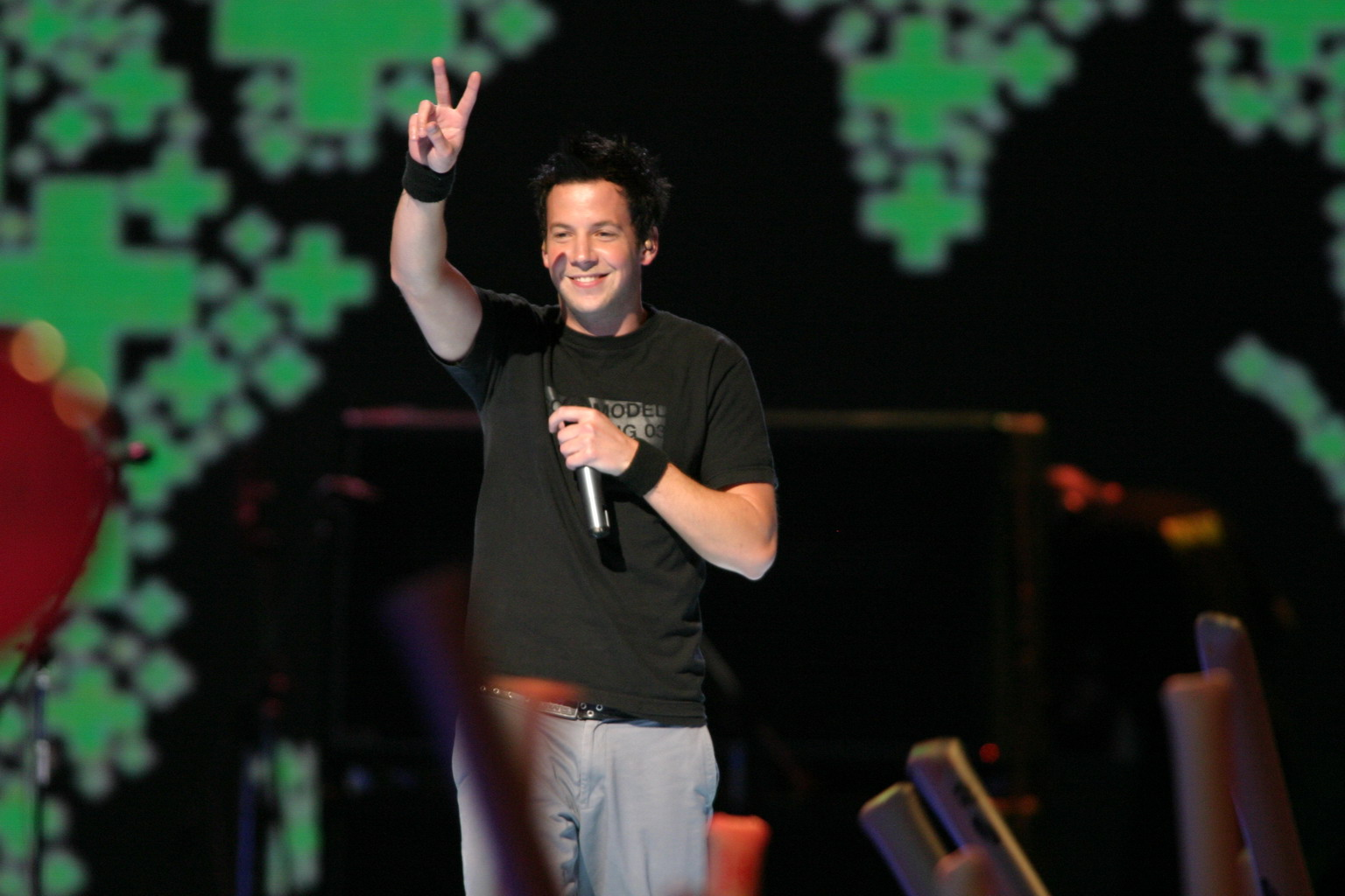 at MTV Asia Aid, Bangkok, Thailand. Pierre Bouvier (né à Montréal, au Québec, le 9 mai 1979) est un chanteur québécois connu pour être le leader du groupe de pop punk Simple Plan